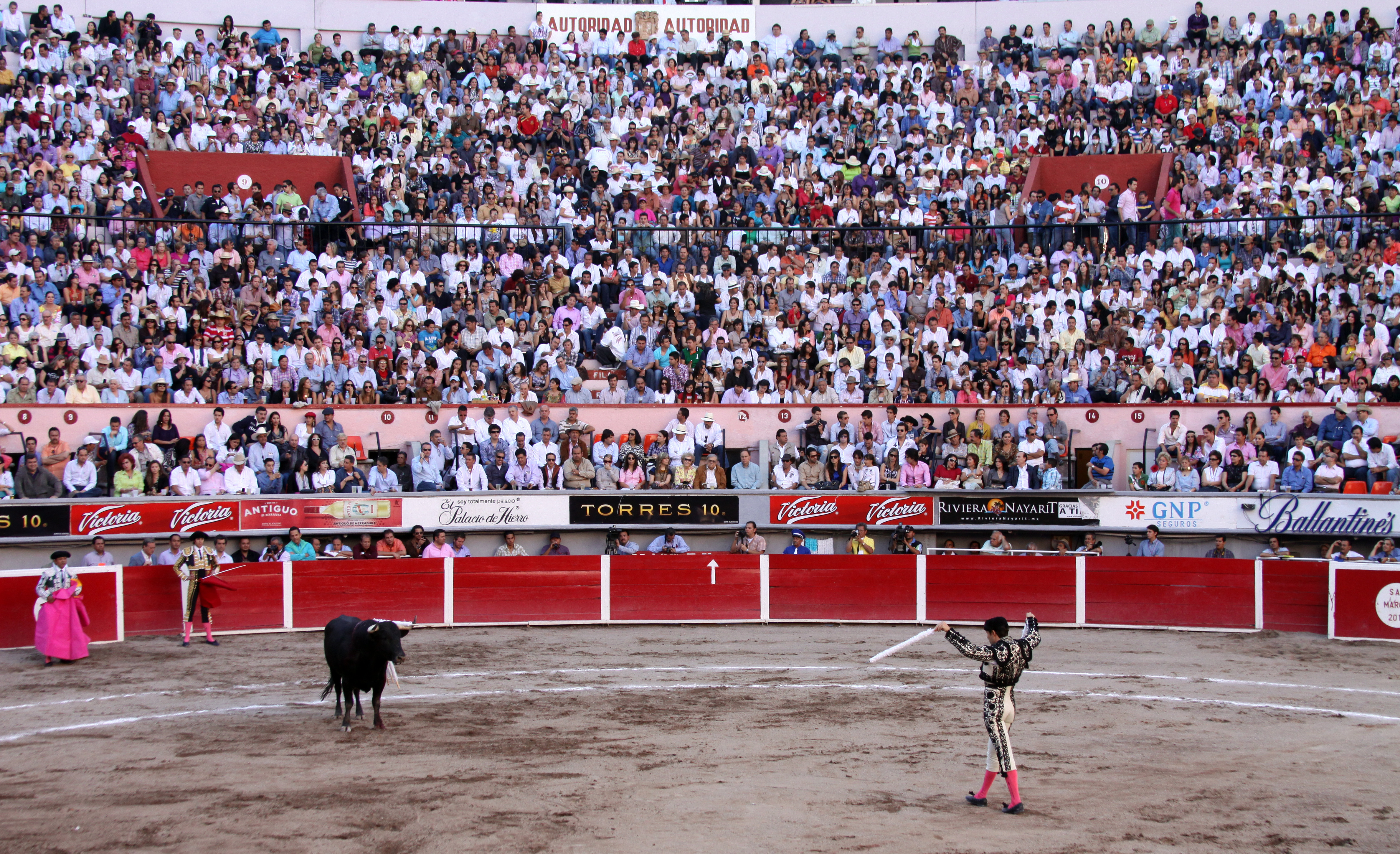 Feria de San Marcos, Aguascalientes, Mexico.